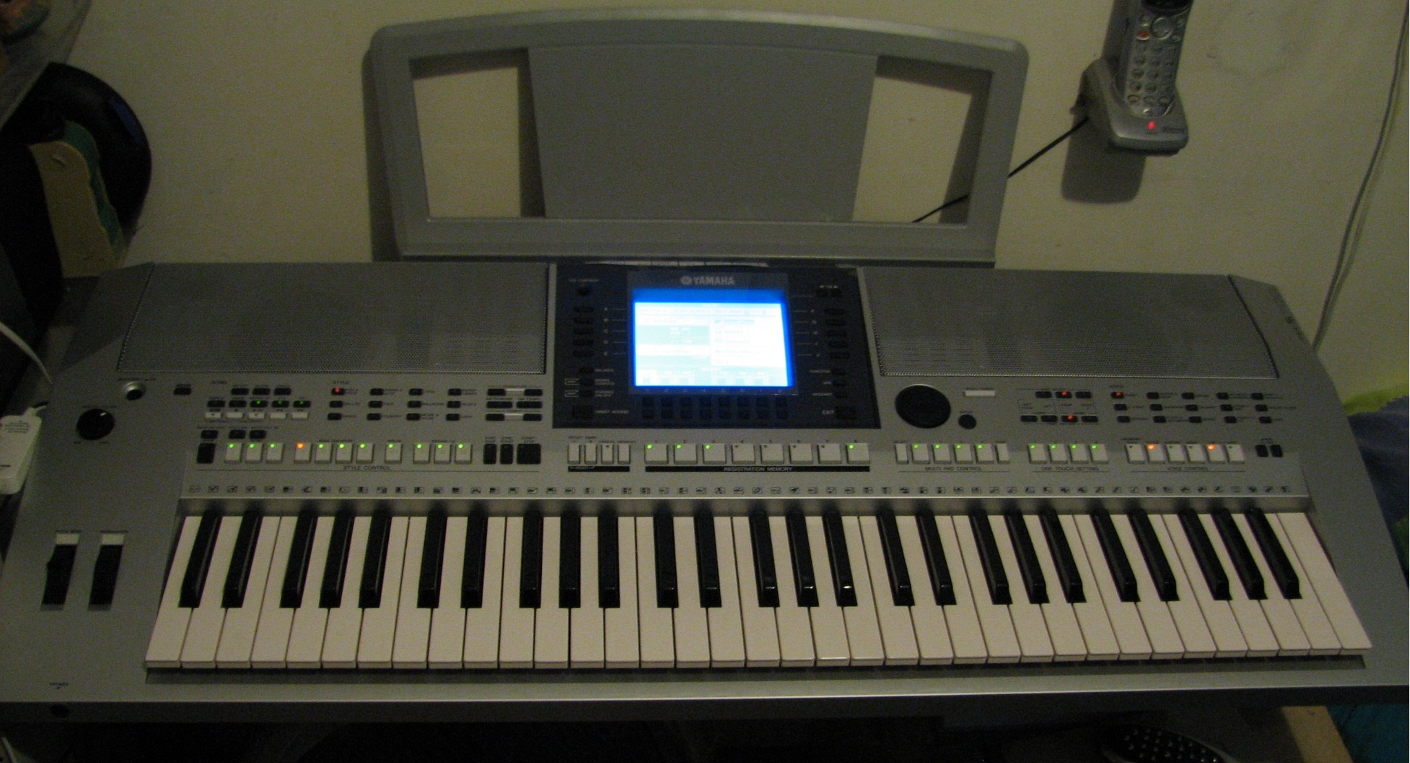 My Yamaha PSR-S700 digital keyboard. Photographed in my room while on.